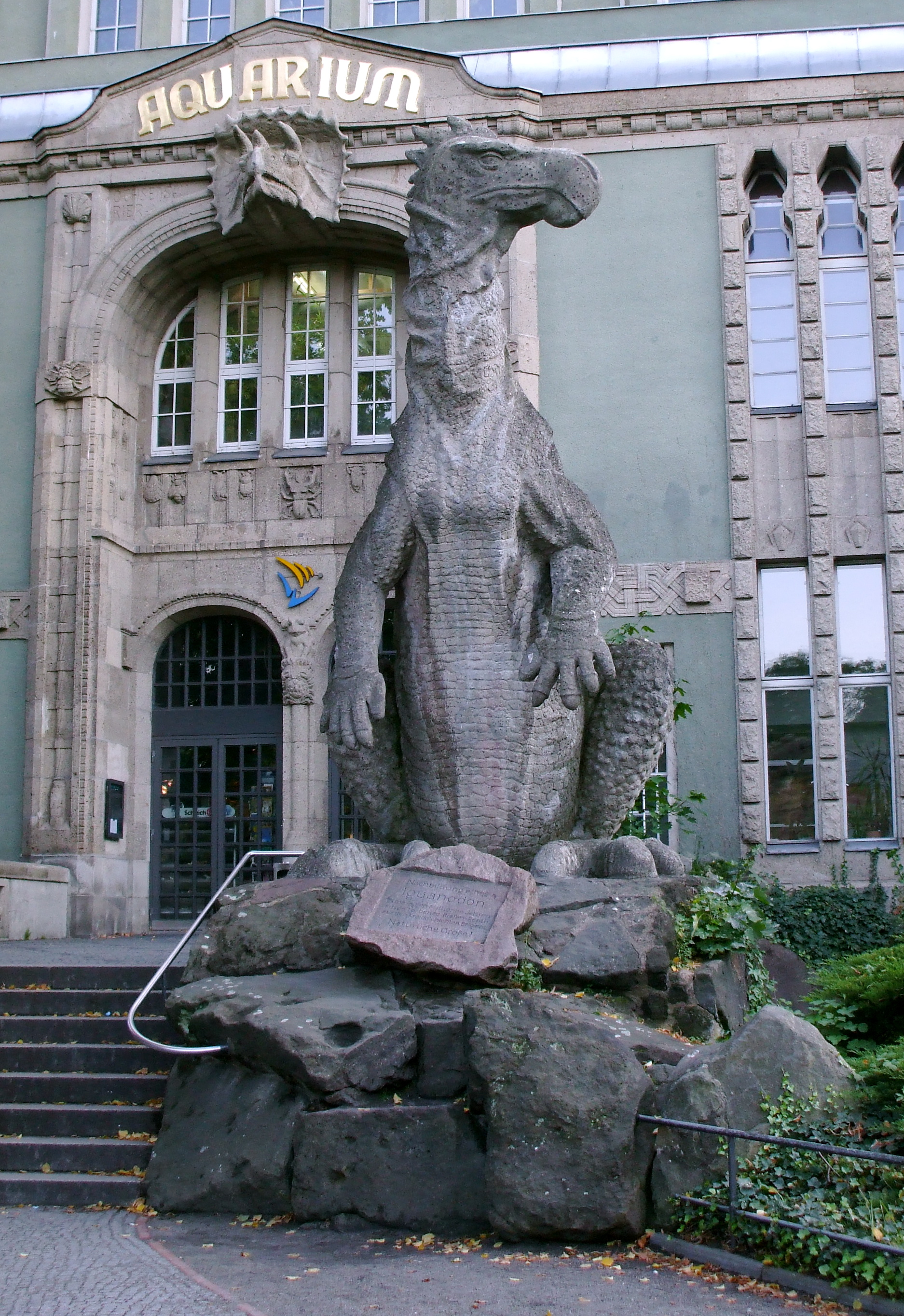 Outside the aquarium in Berlin Zoo. "Actual size". Sculptor: Heinrich Harder († 1935)